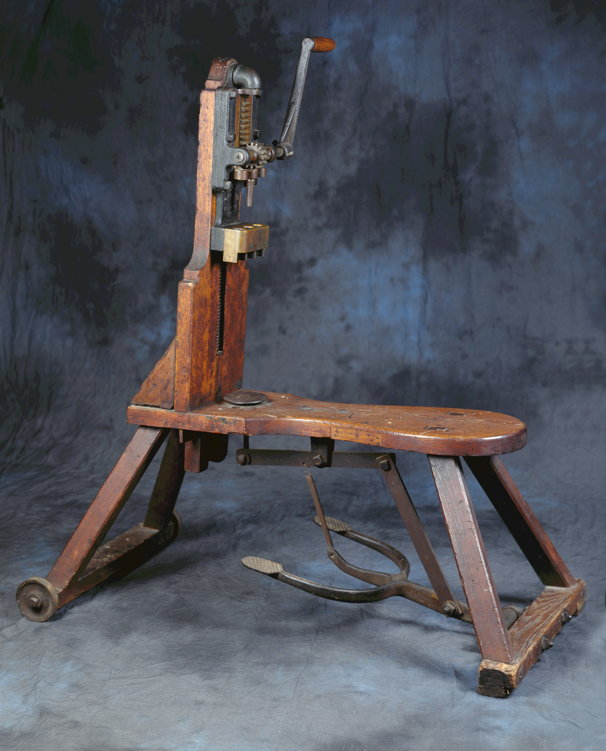 Bottle corking machine used at Adam Lemp brewery. The machine consists of an operator's seat, hand lever attached to various size cork holders, and foot mechanism to lift the bottle up to the cork, providing the necessary force for capping.Title: Lemp Bottle Corking Machine